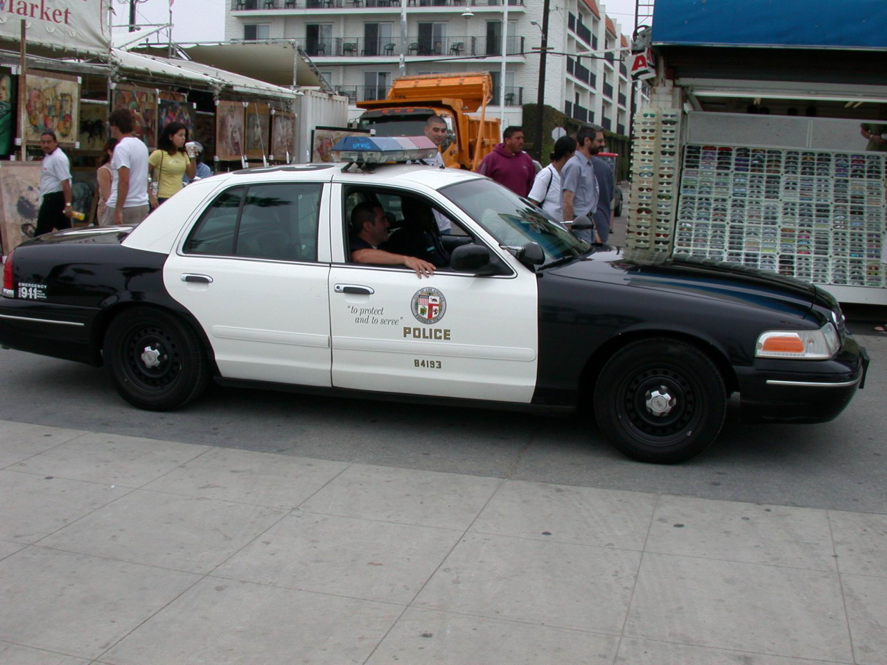 The Los Angeles Police Department (LAPD) is the police department of the city of Los Angeles, California. With over 9,600 sworn officers and 3,000 non-sworn staff, covering an area of 473 square miles (1,230 km2) with a population of more than 3.8 million people, it is the fifth largest law enforcement agency in the United States (behind the New York City Police Department, California Department of Corrections and Rehabilitation, Chicago Police Department and the Federal Bureau of Investigation). The LAPD has been heavily fictionalized in numerous movies and television shows throughout its history. The department has also been involved in a number of controversies, mostly involving racial animosity and police corruption.